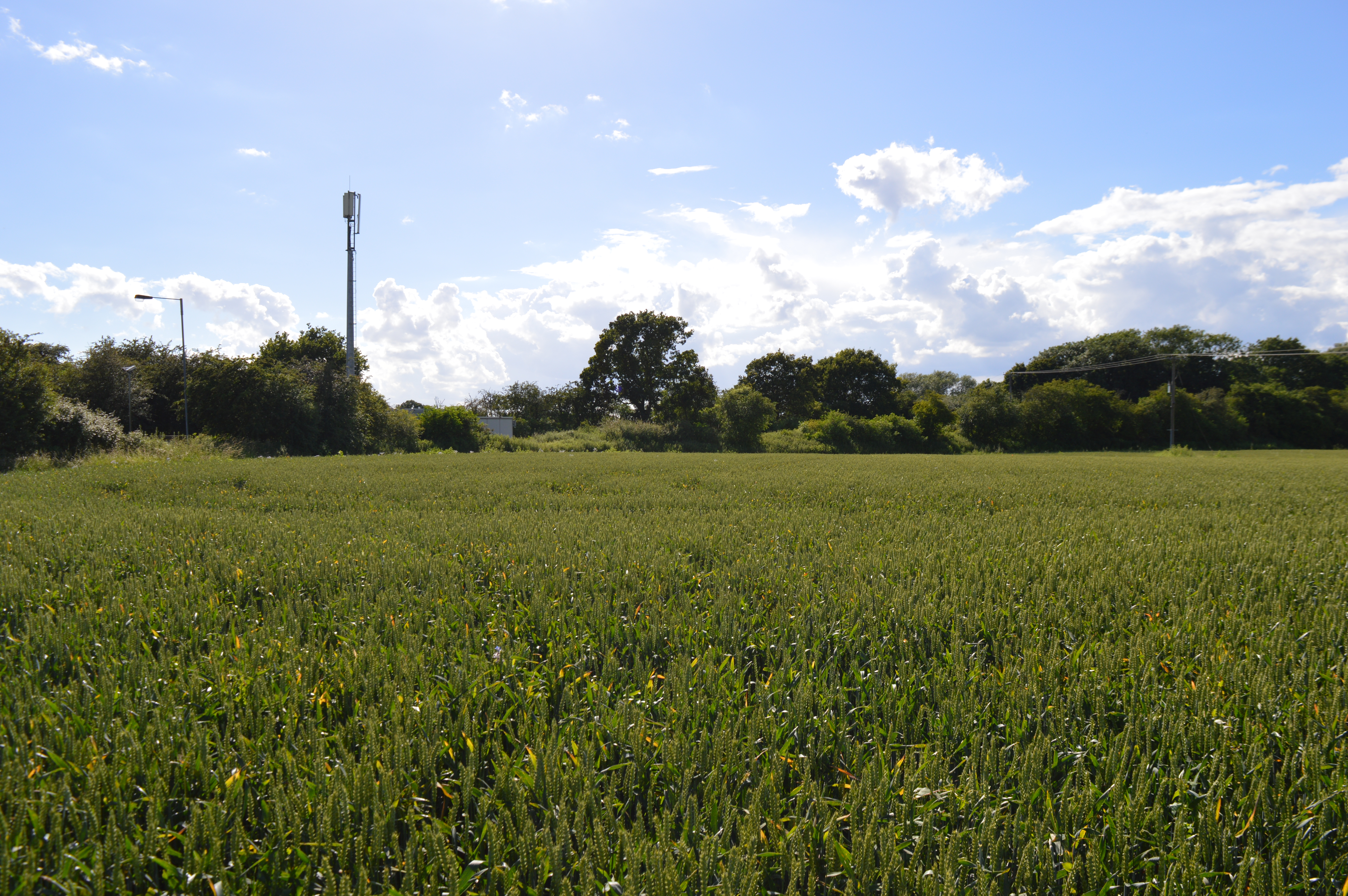 Marks Tey Brickpit is a geological Site of Special Scientific Interest in Marks Tey in Essex. The only area visible from a public area has been filled in and is now a field which can be seen from Marks Tey railway car park